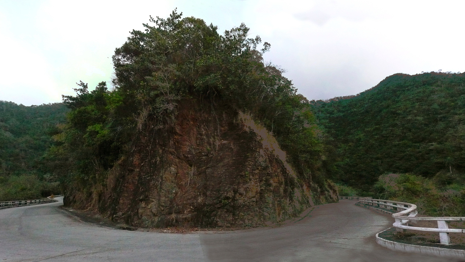 Cuba - La Farola mountain road.